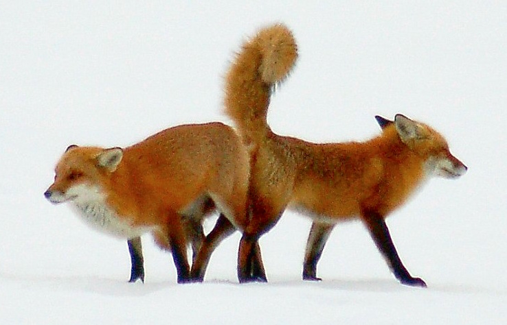 The depicted situation shows the canid copulatory tie. We came across these two red fox (V. v. cascadensis) who appeared to be stuck together. Our first thought was that they were mating. But they were facing in opposite directions. Having not read the Kanine Sutra we were unaware if this position was even possible for coitus. The predicament went on for a few minutes and they remained entangled. We wondered if there was some glue or piece of trash or something which was keeping them together. The classic Washington dilemma then popped up: Which Agency Do I call? 311 is the city's catch-all number; from there we could get animal control. BUT we were on Federal property managed by the National Park Service; Do we backtrack to the Park Police substation? Thankfully they freed themselves before we became entangled in the overlapping jurisdictions. The two animals stretched, and trotted off. Hain's Point Golf Course, Washington, DC